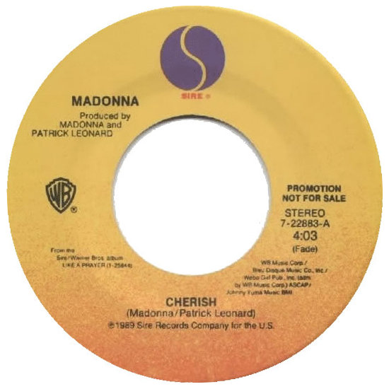 A label of U.S vinyl release of "Cherish" by Madonna